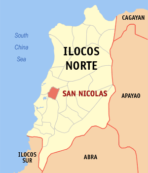 Map of Ilocos Norte showing the location of San Nicolas